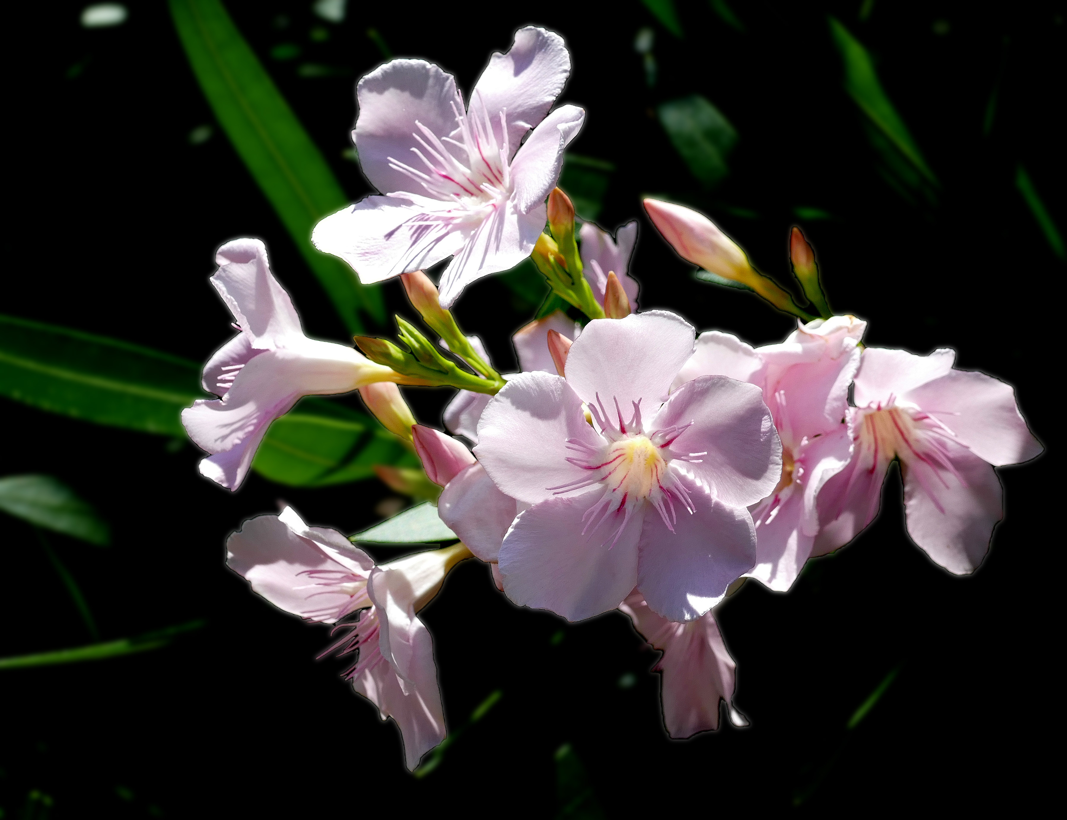 Nerium oleander